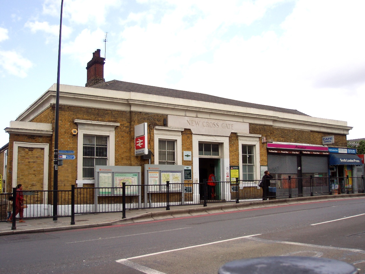 One of two stations serving the main road running through New Cross (the other is New Cross station). Station Code: NXG. Line(s) and Previous/Next Stations: Surrey Quays Brockley London Bridge Brockley Former Name(s): New Cross. Links: Randomness Guide to London Wikipedia